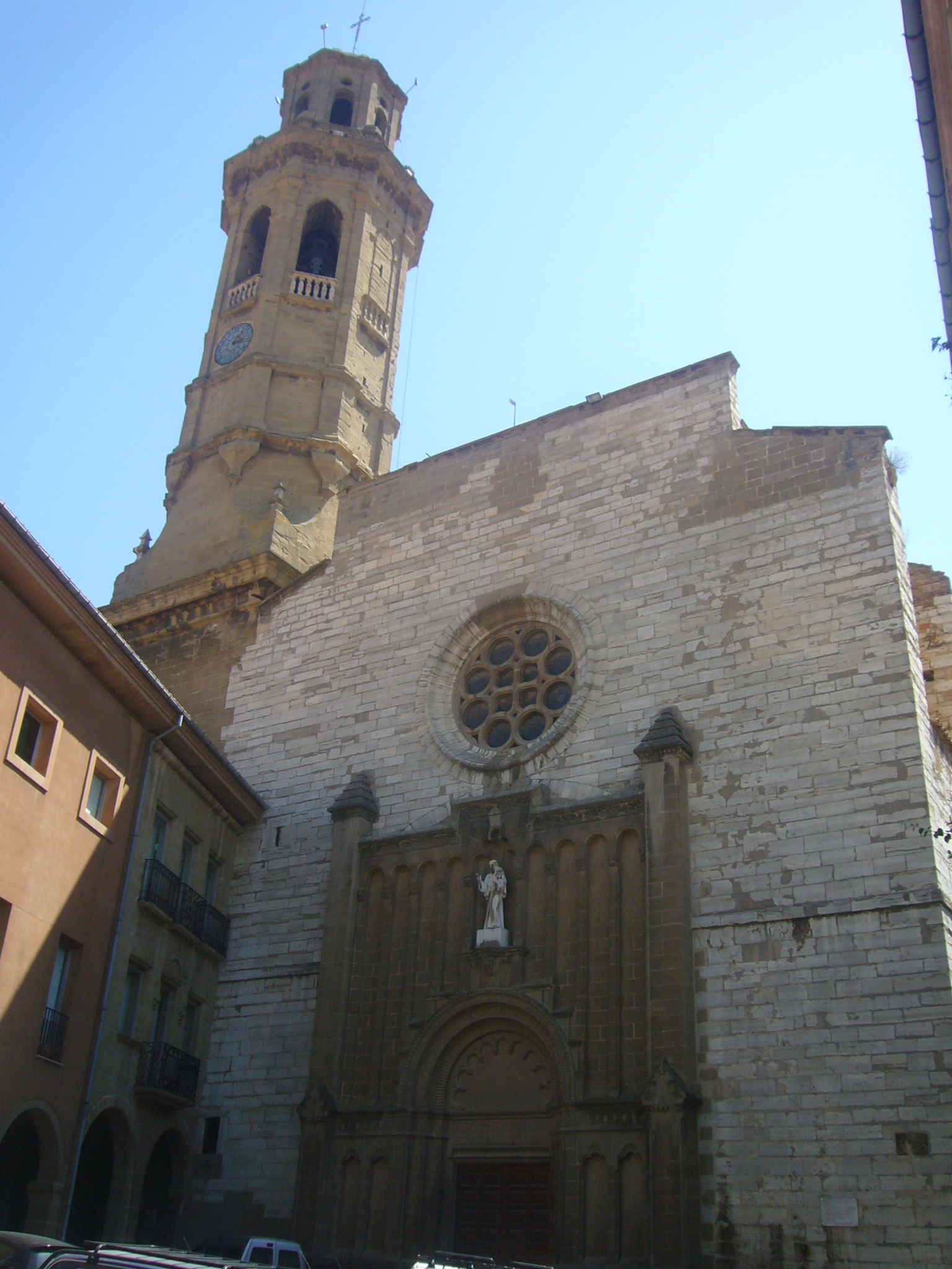 St James church (Calaf)